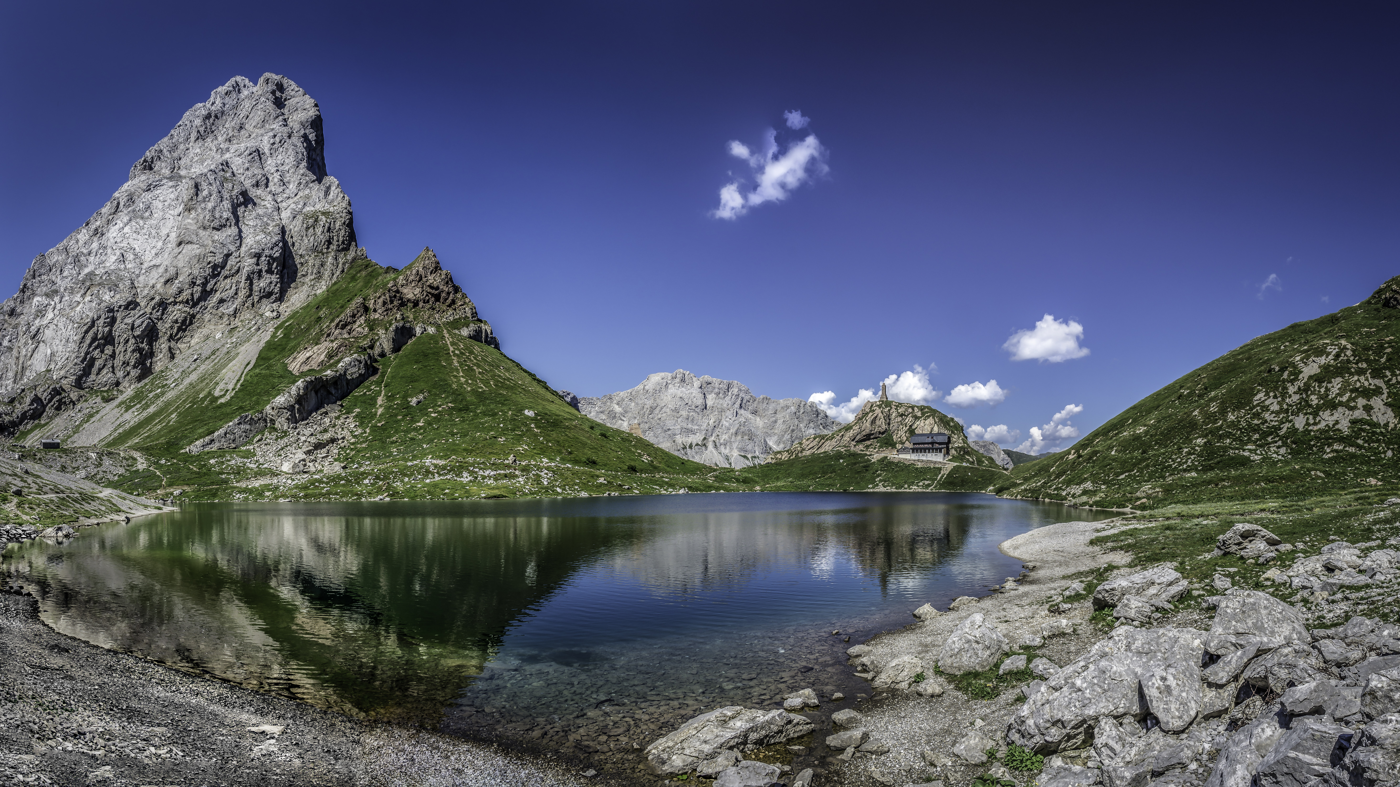 Nature reserve Wolayer See and surrounding area in Carinthia